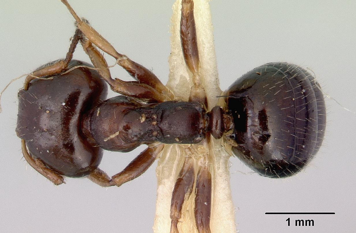 Dorsal view of ant Myrmecorhynchus emeryi specimen casent0172032.